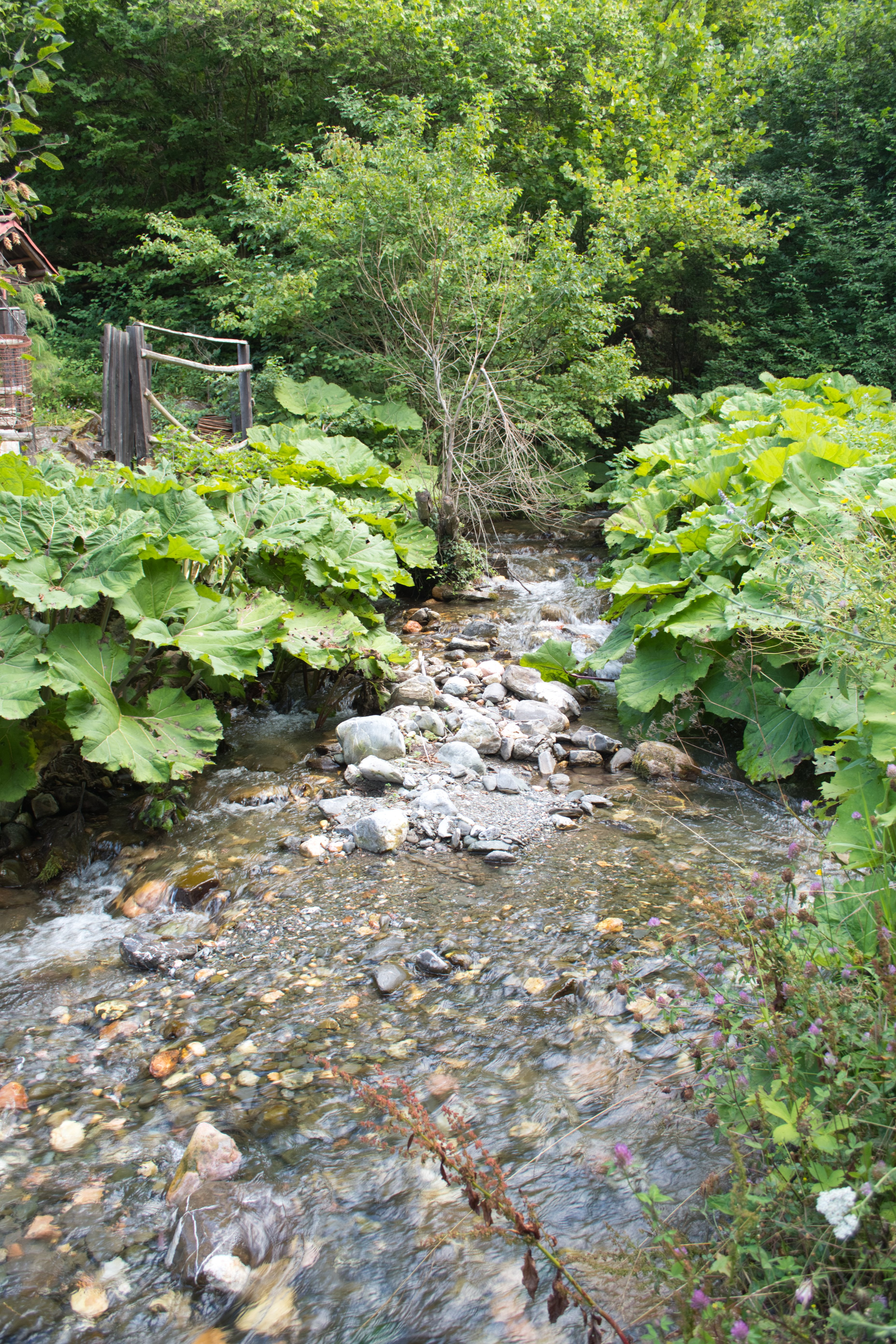 Modrič River near the eponymous village